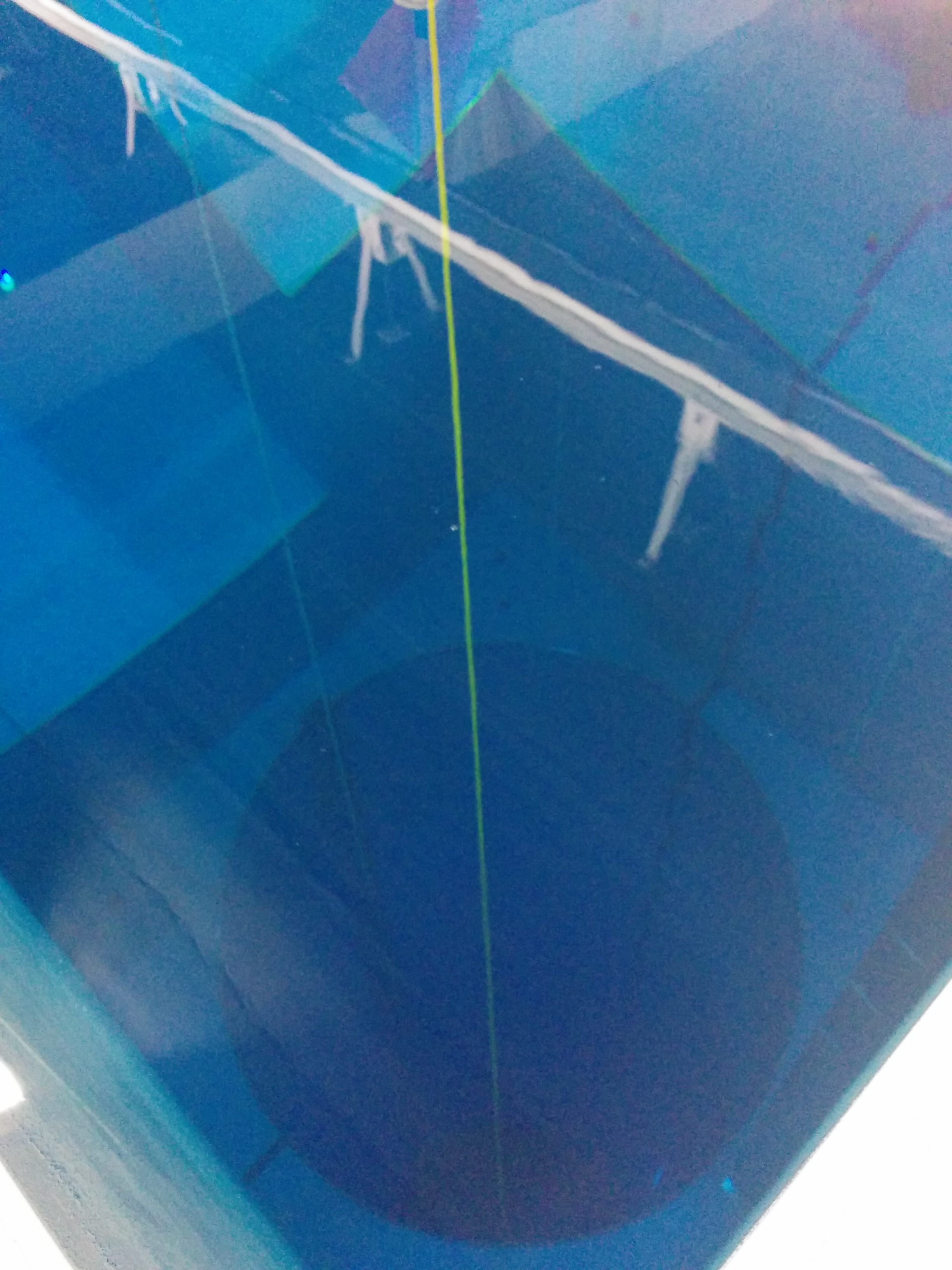 The deepest tunnel in the Y-40 Pool at the Hotel Terme Millepini. Photo by Apnea Evolution Apnea Evolution Apnea-academy